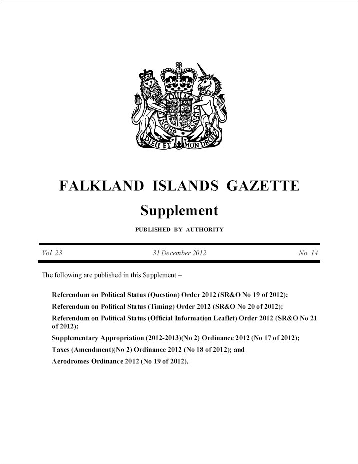 Cover of Falkland Islands Gazette